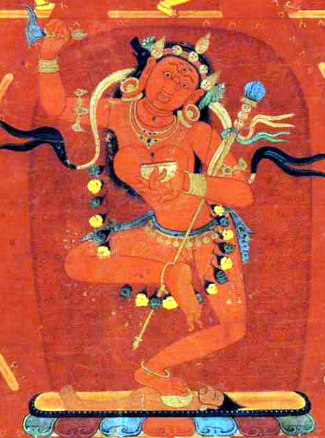 cropped version of 14th century Tibetan thangka painting of the Mandala of Vajravarahi